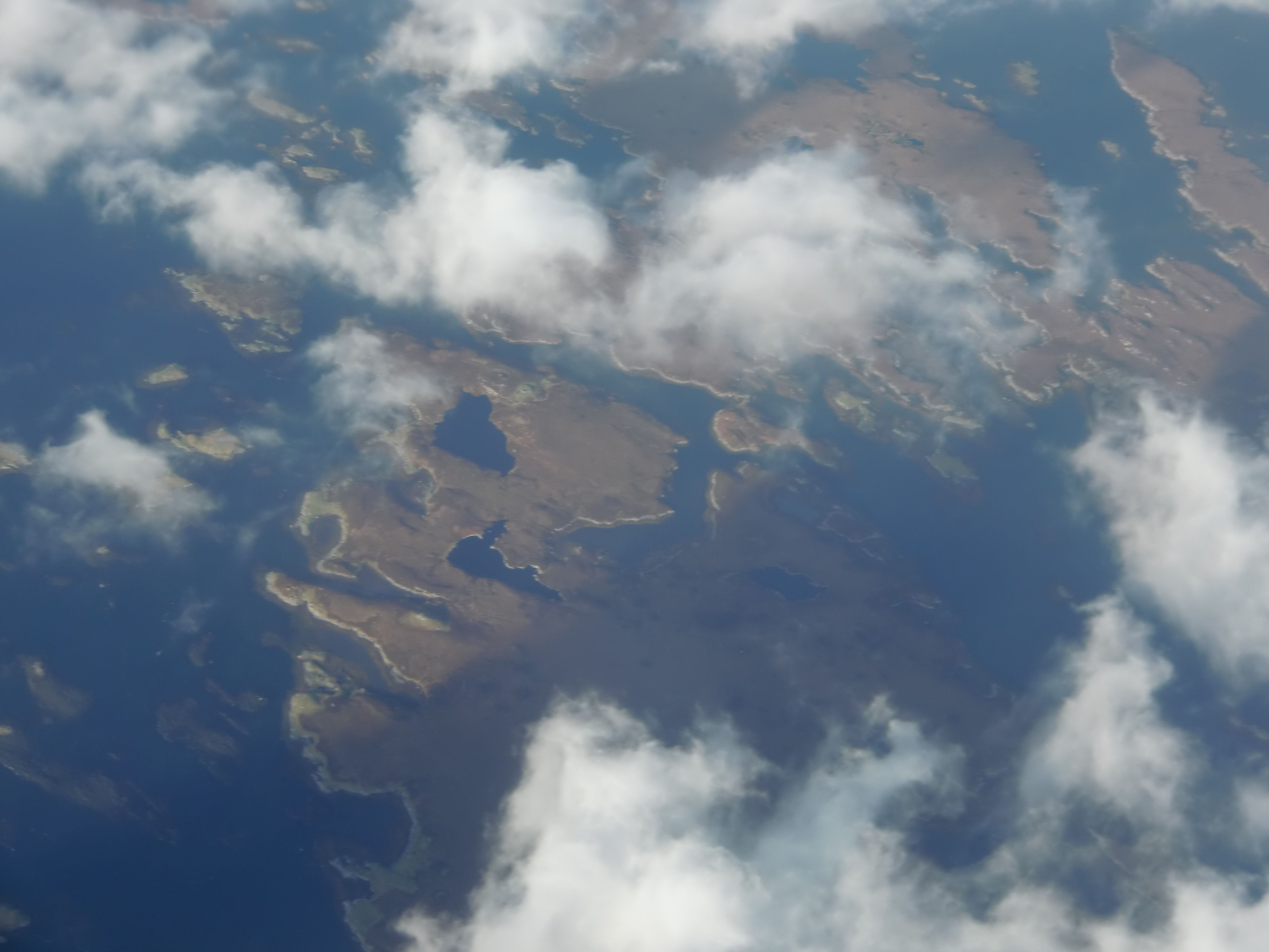 Ceallasaigh Beag, an island in Loch Maddy, Outer Hebrides, Scotland from the air. Ceallasaigh Mor is at the top of the picture, partly obscured by clouds.